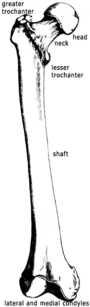 Drawing of femur